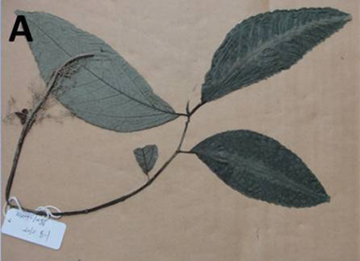 Elatostema pleiophlebium W.T.Wang & Zeng Y.Wu. Specimen